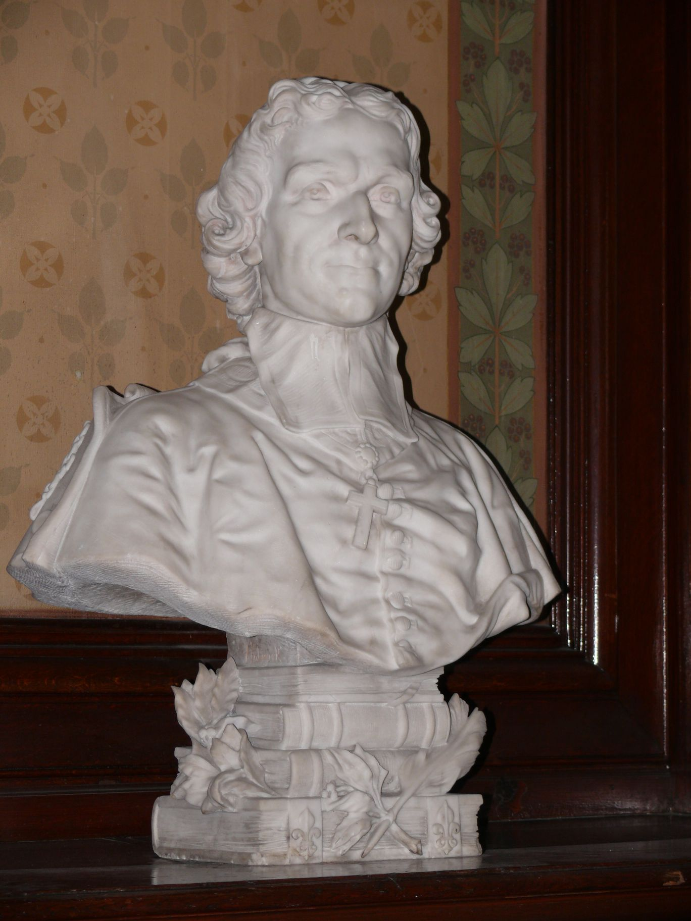 Statue of Fénelon at Lycée Fénelon (Paris, France)